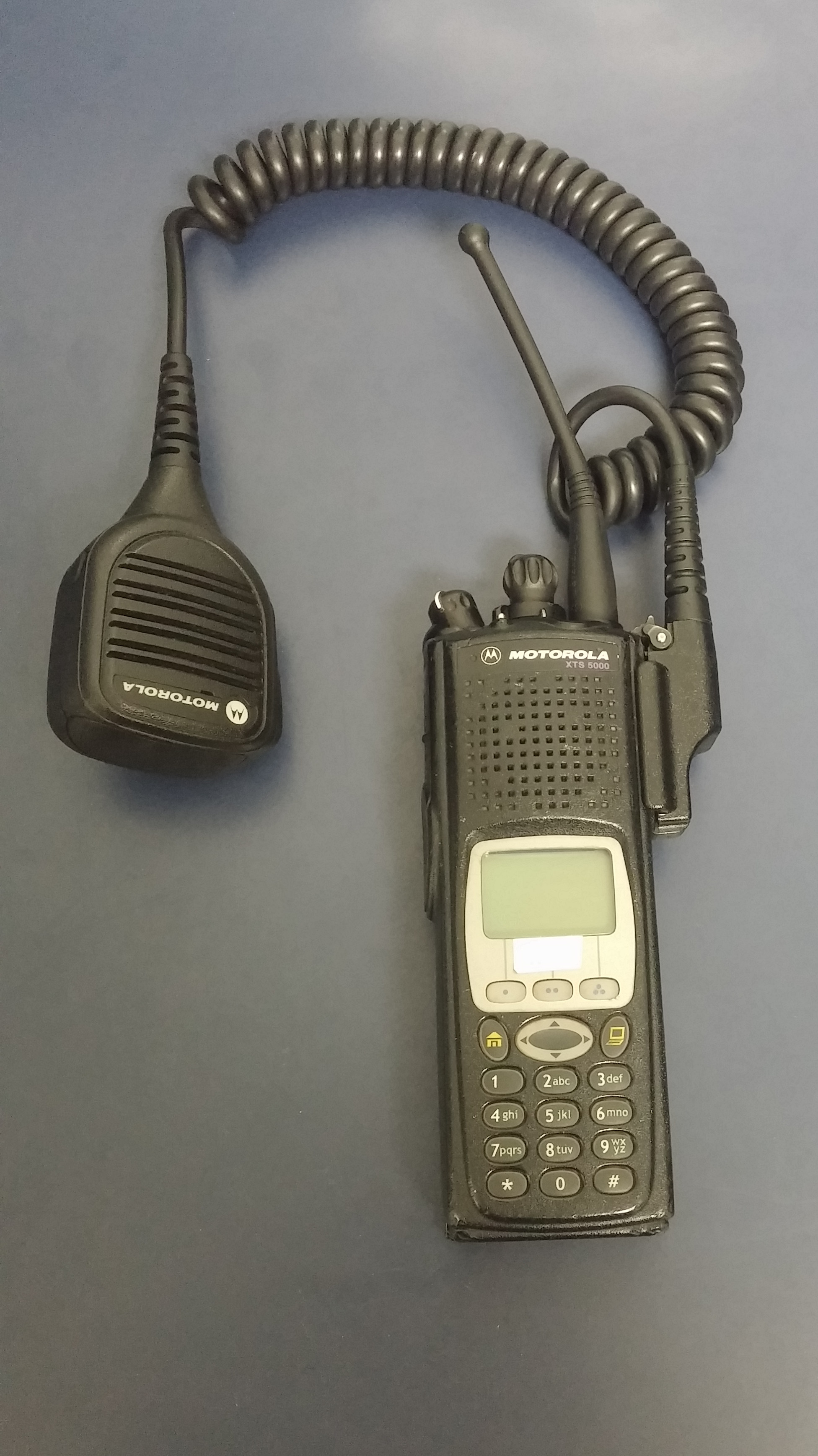 XTS 5000 Motorola Radio used by Victoria PoliceRomână: Radio Motorola model XTS 5000 folosit de Victoria Police